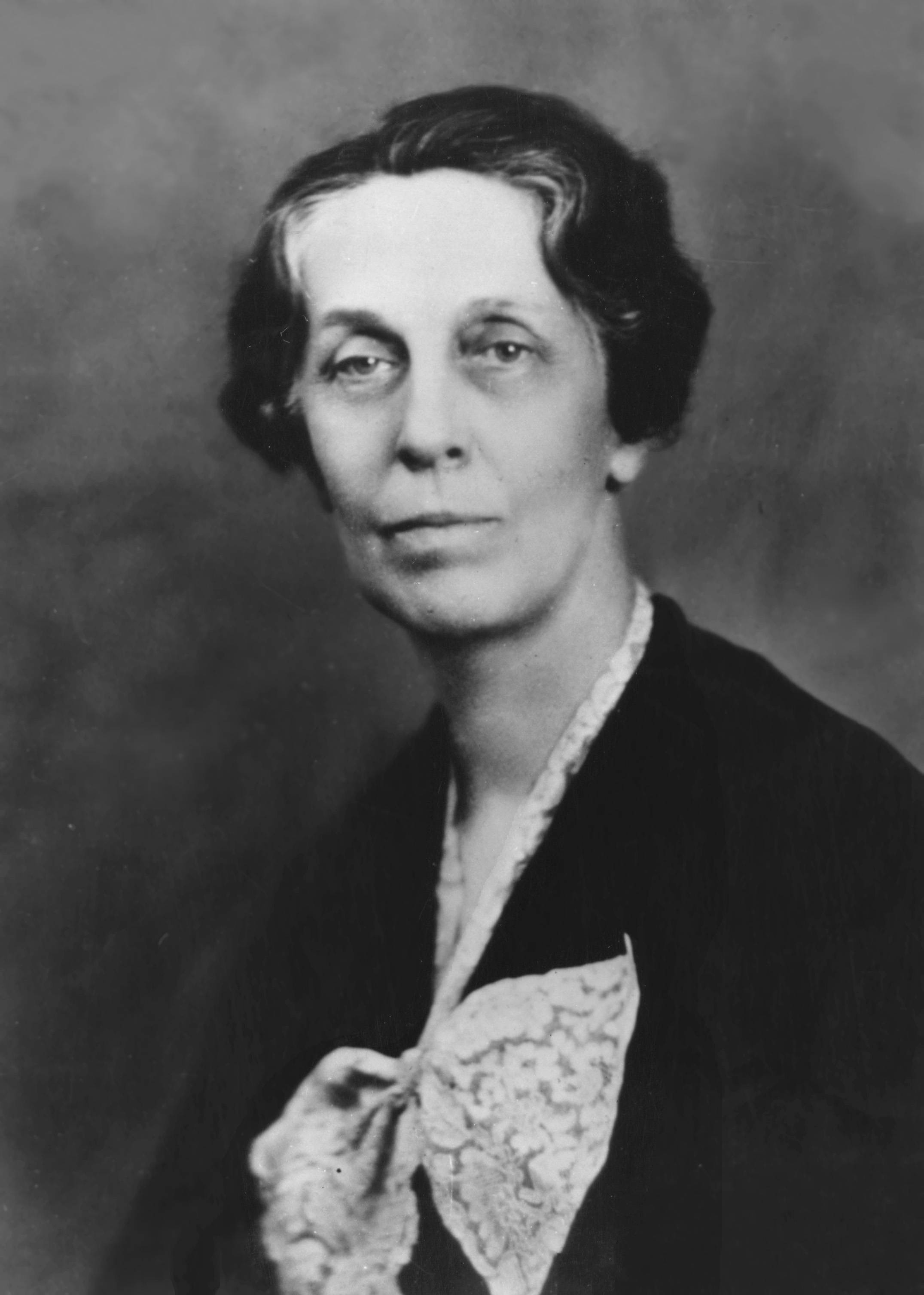 Description: After earning her Ph.D. at the University of Chicago, Emma Perry Carr (1880-1972) taught in the department of chemistry at Mount Holyoke College until becoming professor emeritus in 1946. A pioneer in work on simple unsaturated hydrocarbons and on absorption spectra, Carr received the American Chemical Society's Francis P. Garvan Medal in 1937. Creator/Photographer: Unidentified photographer Medium: Black and white photographic print Persistent URL: Repository: Smithsonian Institution Archives Collection: Accession 90-105: Science Service Records, 1920s – 1970s - Science Service, now the Society for Science & the Public, was a news organization founded in 1921 to promote the dissemination of scientific and technical information. Although initially intended as a news service, Science Service produced an extensive array of news features, radio programs, motion pictures, phonograph records, and demonstration kits and it also engaged in various educational, translation, and research activities. Accession number: SIA2008-0364